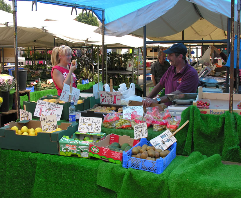 Open-air market at Sutton-in-Ashfield. Taken 9th Sept 2005 by Andie Gilmour.